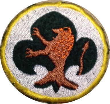 The symbol of the youngest 'kvoutsa' (group) in the Hanoar Hatzioni (age: 6 to 10)